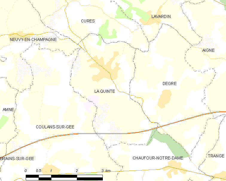 Map of French municipality